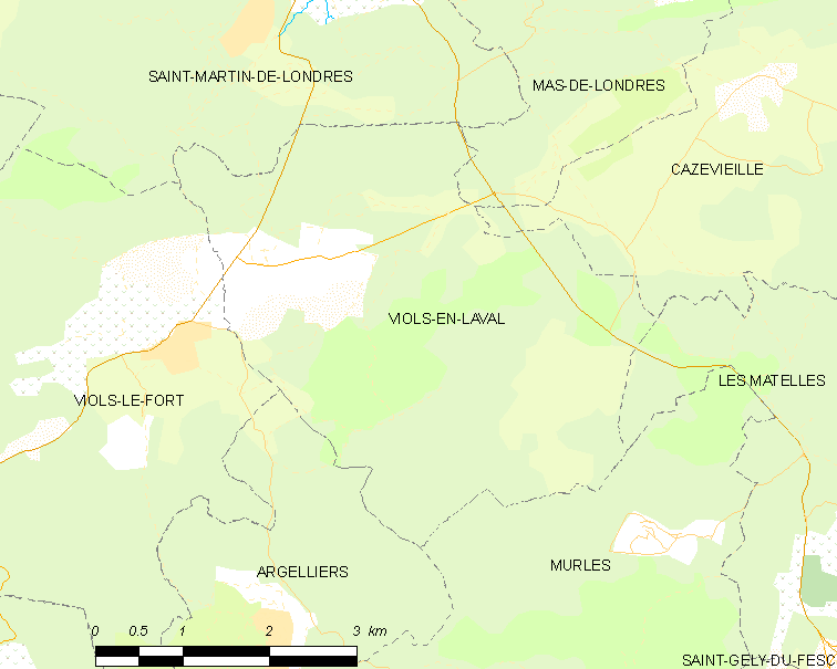 Map commune FR insee code 34342.png - Viols-en-Laval